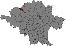 Location of la Vajol in Alt Empordà